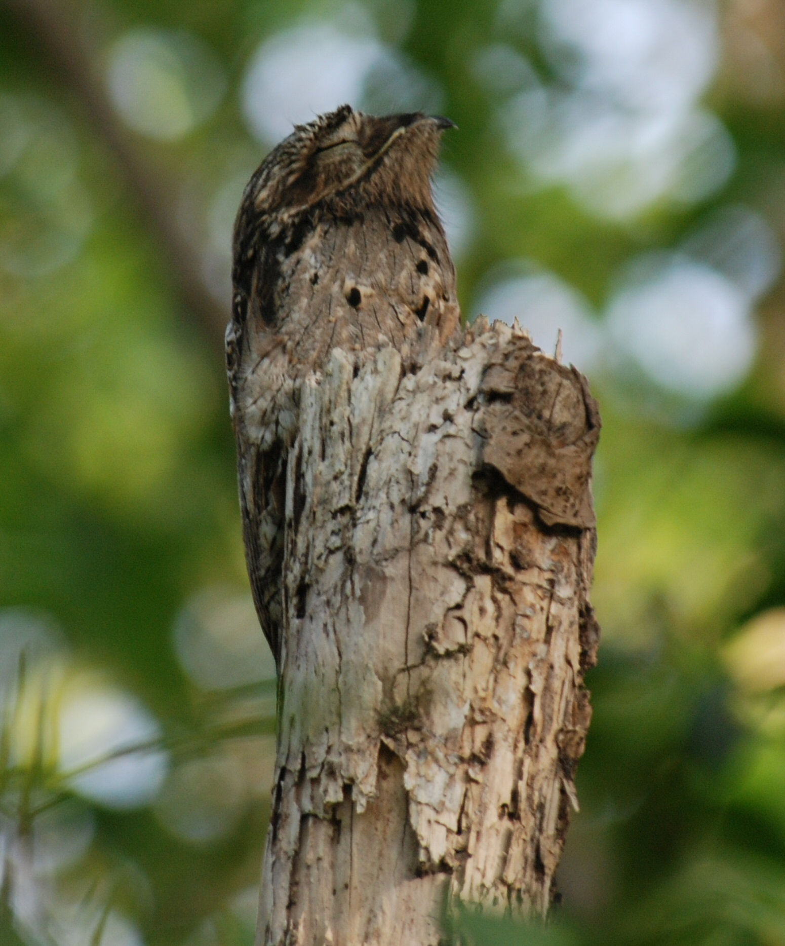 Common Potoo, Nyctibius griseus, photographed in Trinidad